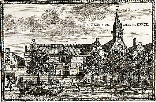 Koormarkt, oude gasthuis